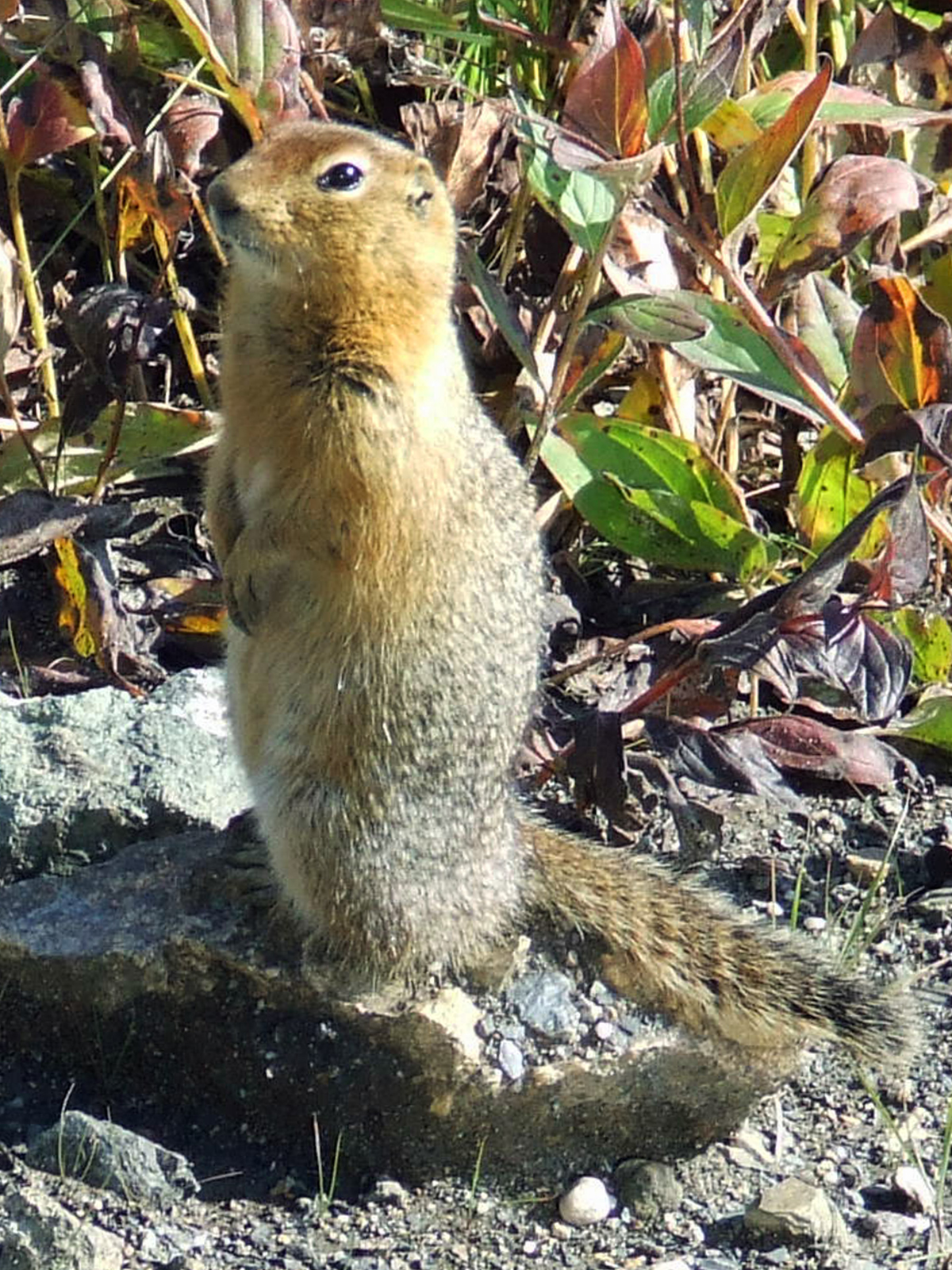 Marmot in Alaksa, Denali